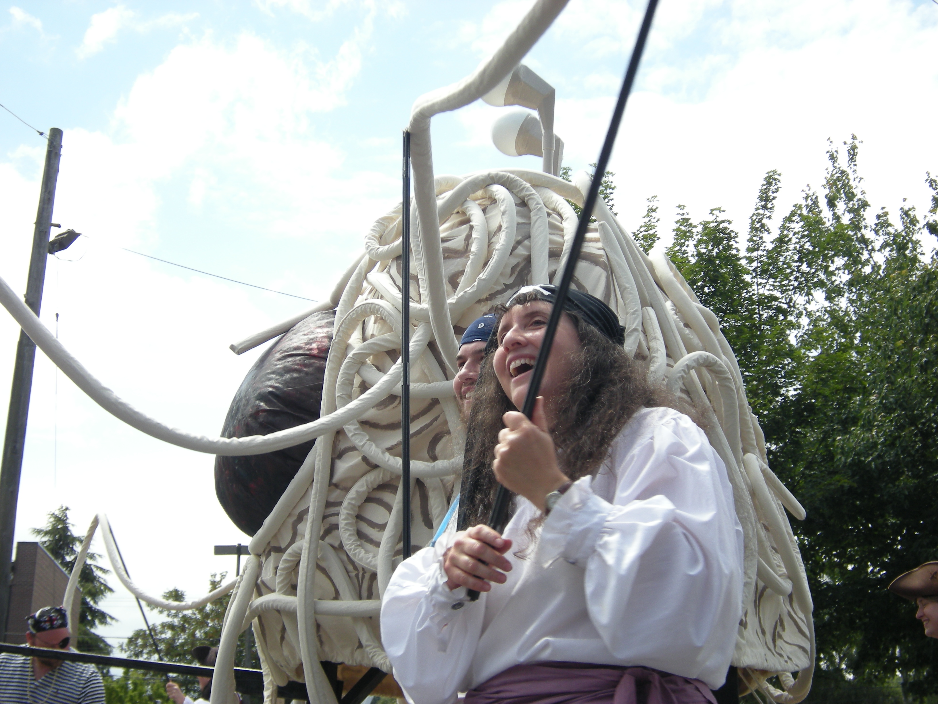 Flying Spaghetti Monster / pirate contingent, Summer Solstice Parade, Fremont, Seattle, Washington.